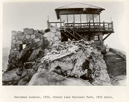 Watchman Fire Lookout on Watchman Peak in Crater Lake National Park, Oregon